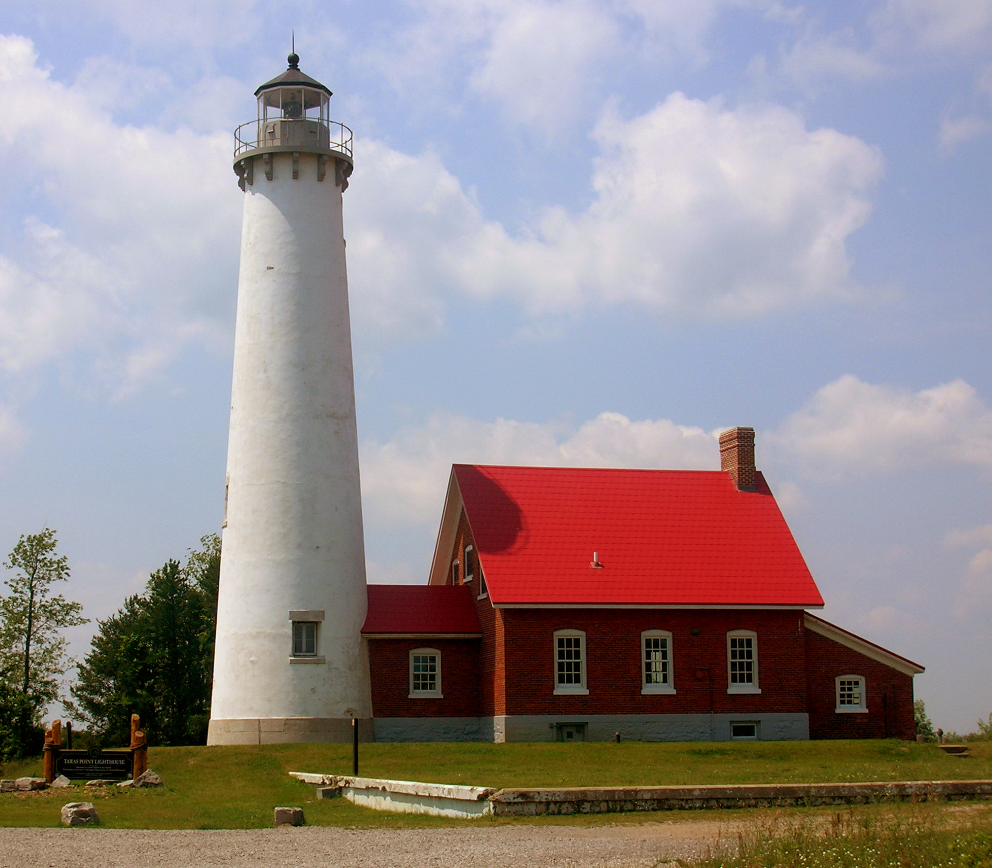 Image of the Tawas Point Lighthouse. The building is a Registered Michigan State Historic Site.